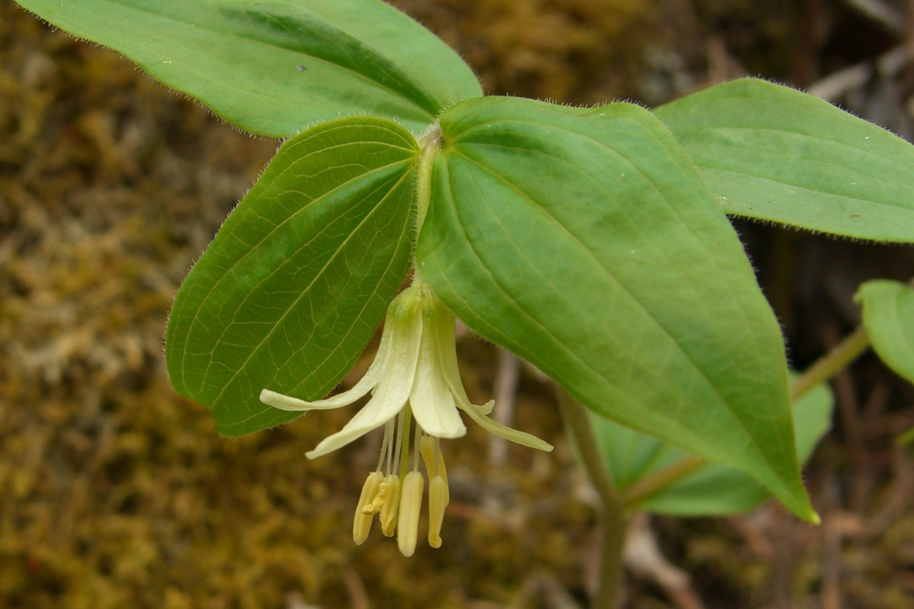 Scientific Name: Disporum trachycarpum (S. Wats.) Benth. & Hook. f. – Common Name: Wartberry Fairybell – Certainty: positive (notes) – Location: Canadian Rockies; Wells Gray Provincial Park; Edgewood Blue – Date: 20080514 – Gotta love that common name. Such a delicate beauty... called wartberry! :)]